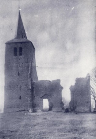 Chapel of the town of Vlierden, demolished in 1902.